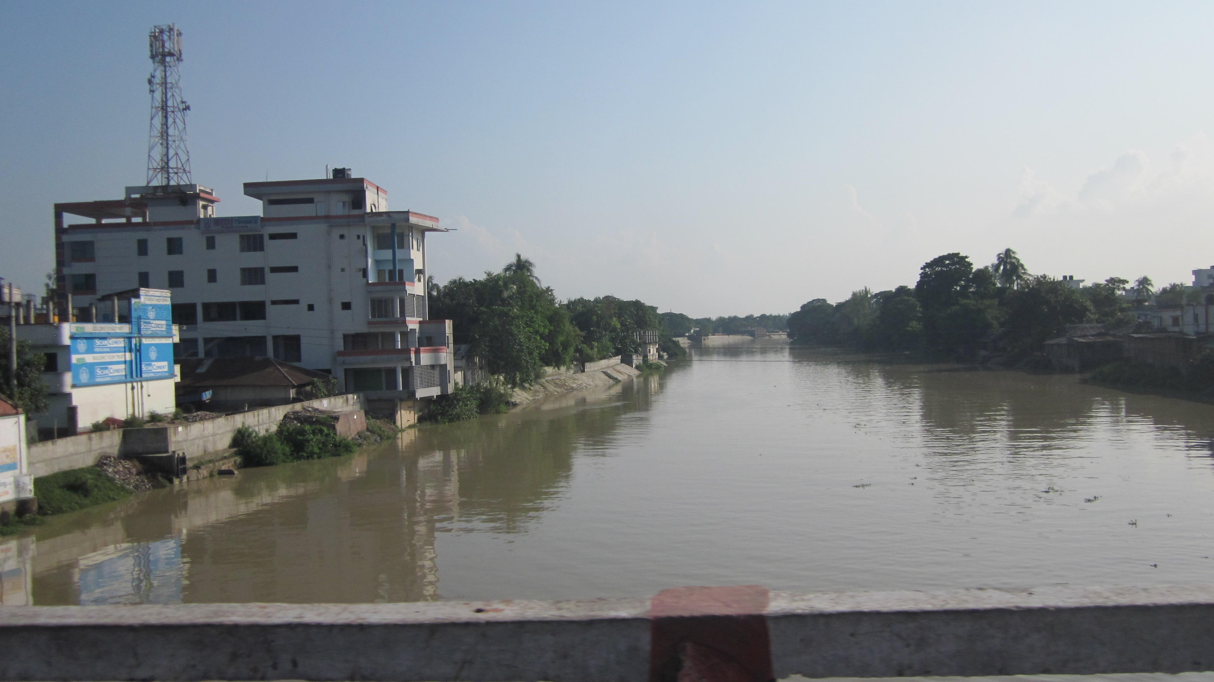 Choto Jamuna River crossing Naogaon City